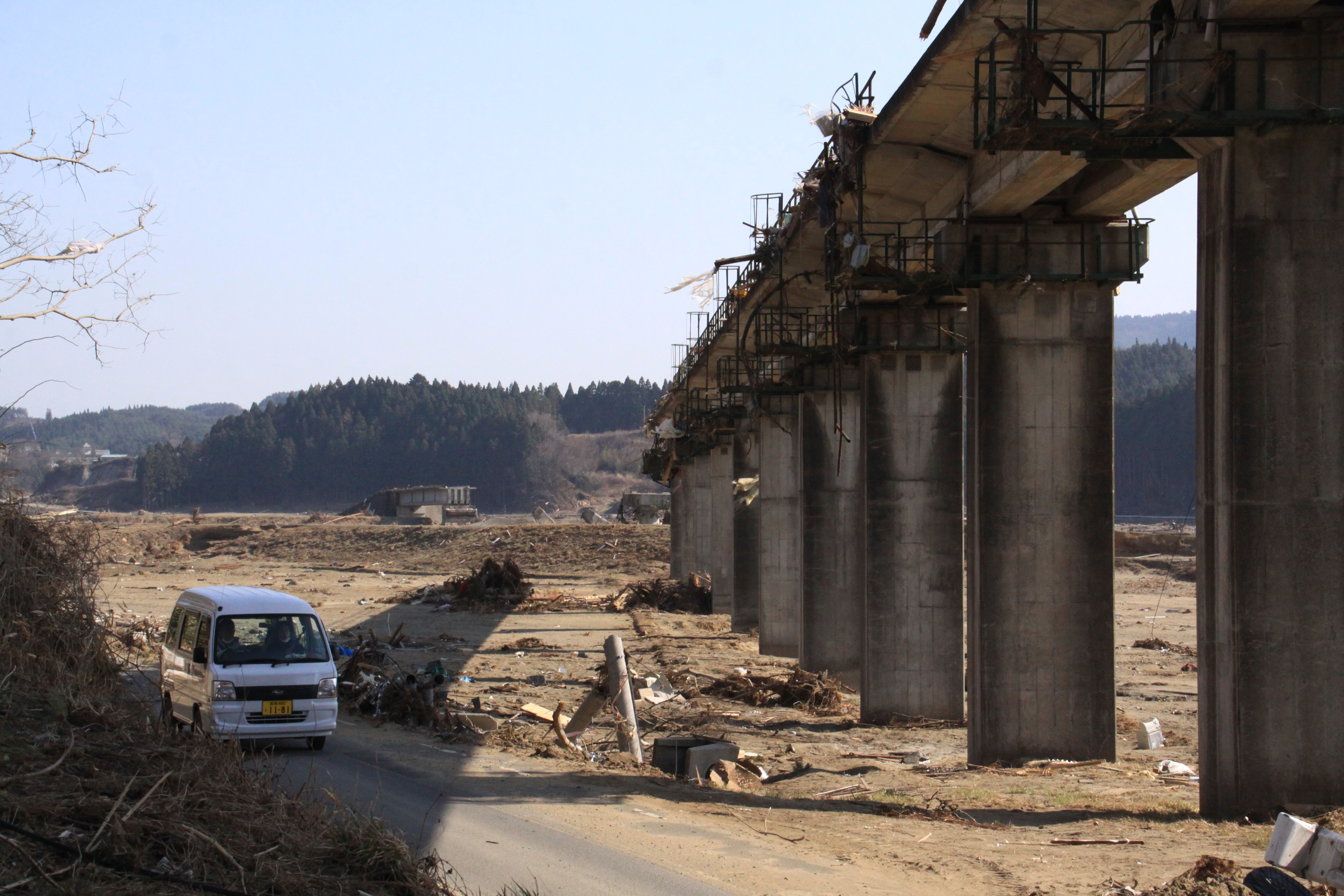 Tsuyagawa Bridge in Kesennuma Line that is overcome by tsunami of height that exceeds bridge and has dropped in Kesennuma, Miyagi.